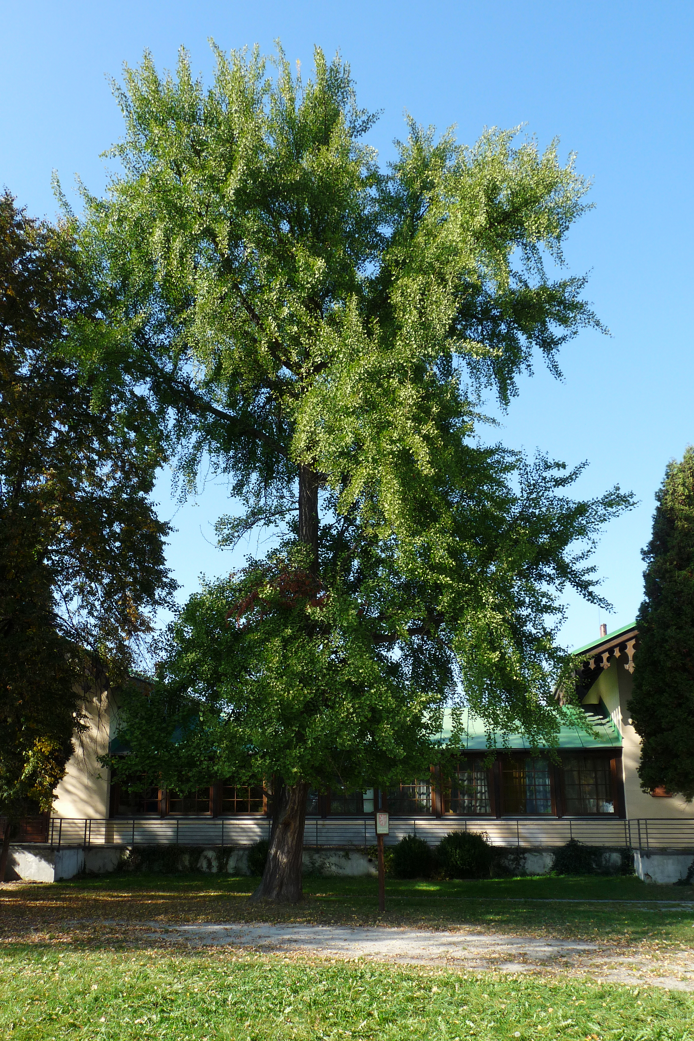 Ginkgo biloba in front of the 20th scouting unit club called 'Ginkgo' in České Budějovice, Czech Republic